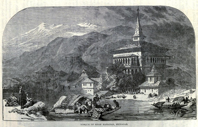 An old sketch of the Mosque of Shah Hamadan From Pictorial tour round India (1906) by John Murdoch (1819-1904).